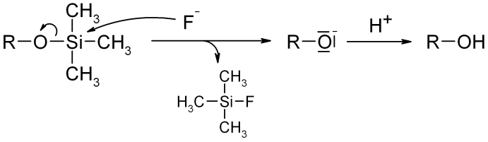 Desilylation of silyl-protected hydroxy groups by means of fluoride